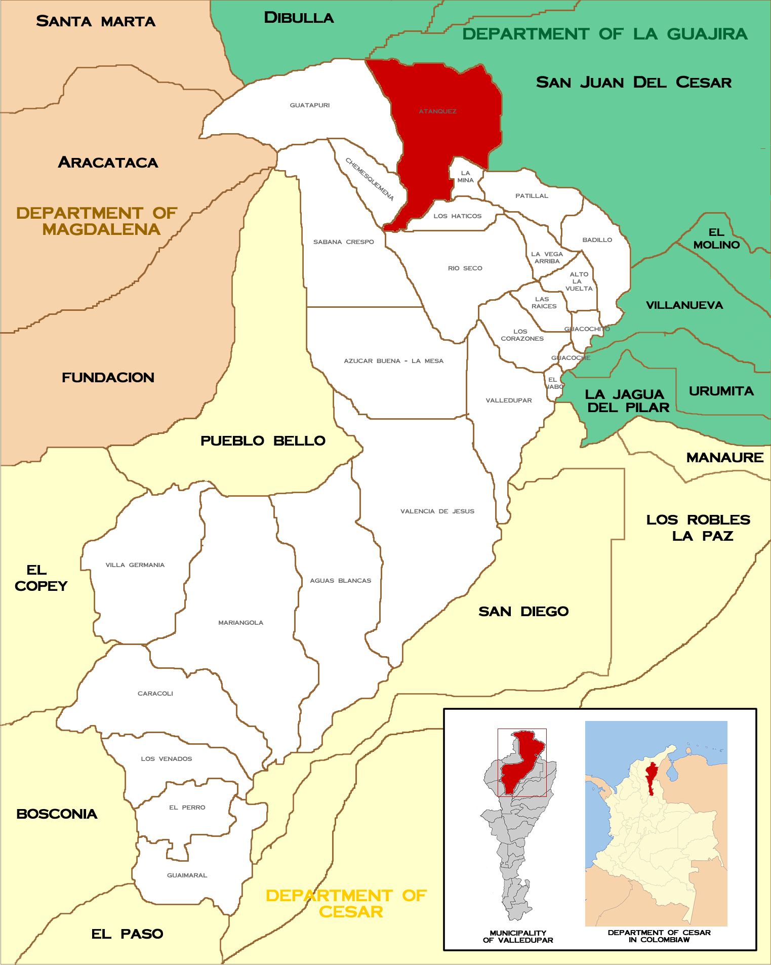 Map of Corregimientos of Valledupar, Atanquez